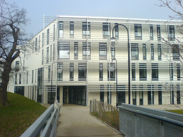 UK Data Archive, University of Essex A modern structure close to the centre of the University of Essex main campus at Wivenhoe Park